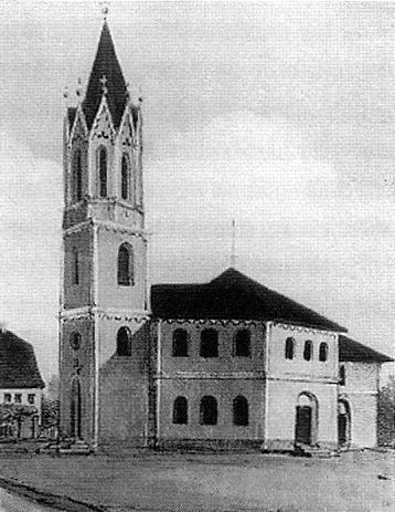 The Hope Church in Knauthain, built in 1846.